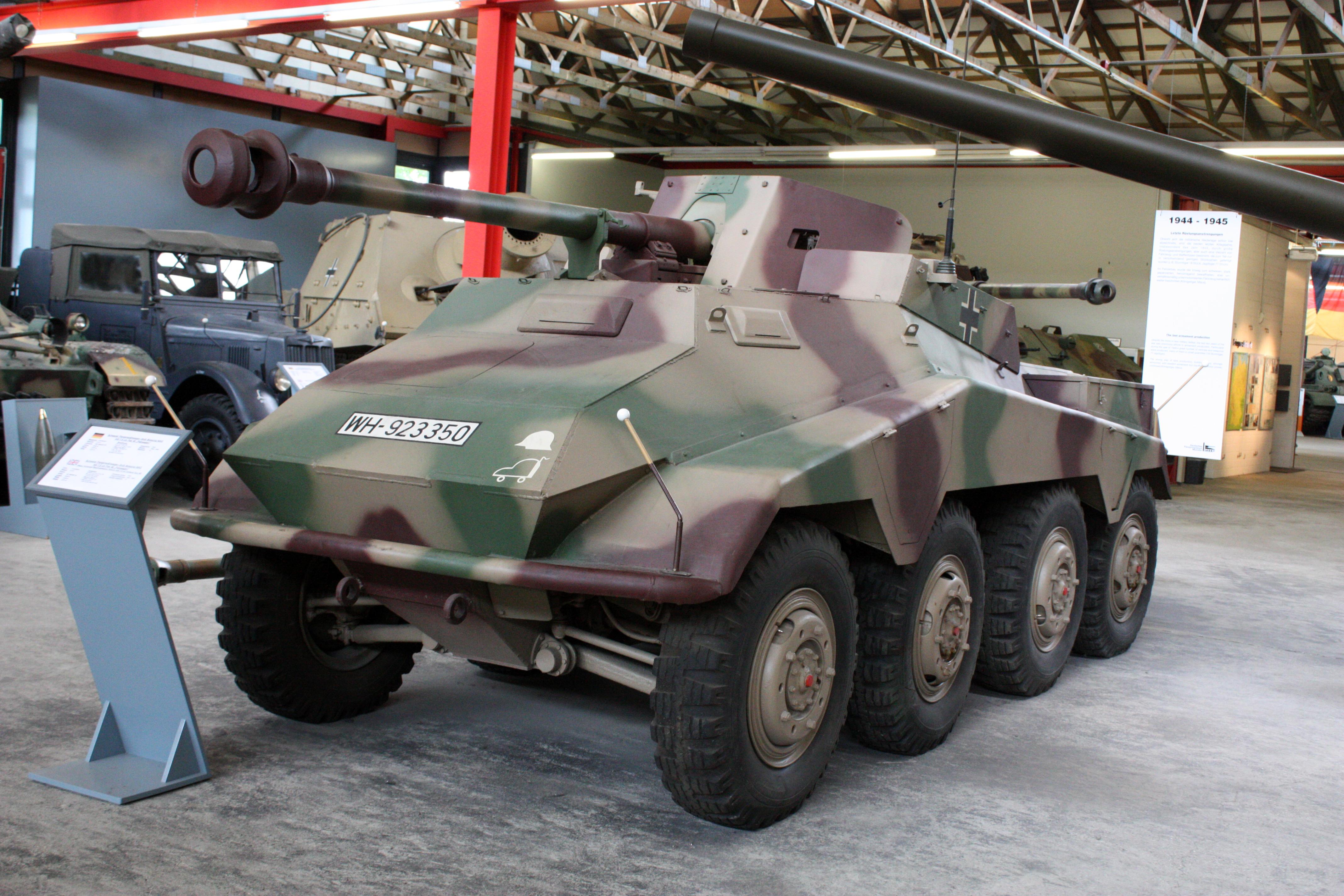 German Tank Museum